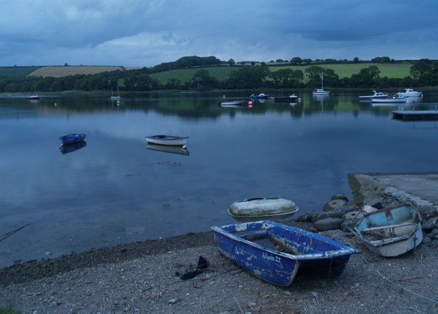 Cychod yn Llandudoch / Boats at St Dogmaels